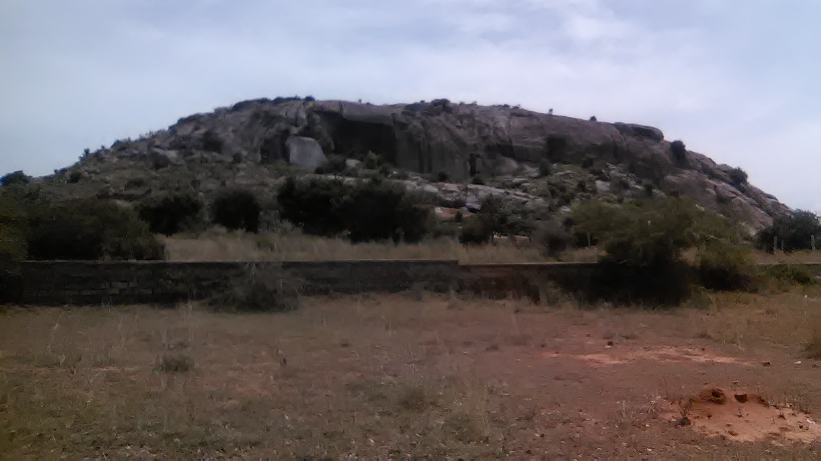 ஒசூர் பிரம்மன் மலை என்று அழைக்கப்படும் நேலக்கே பெட்டா